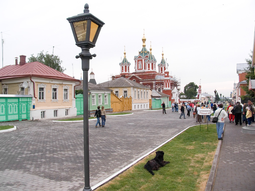 Kolomna, Brusensky Monastery and Church of the Descent from the Cross.